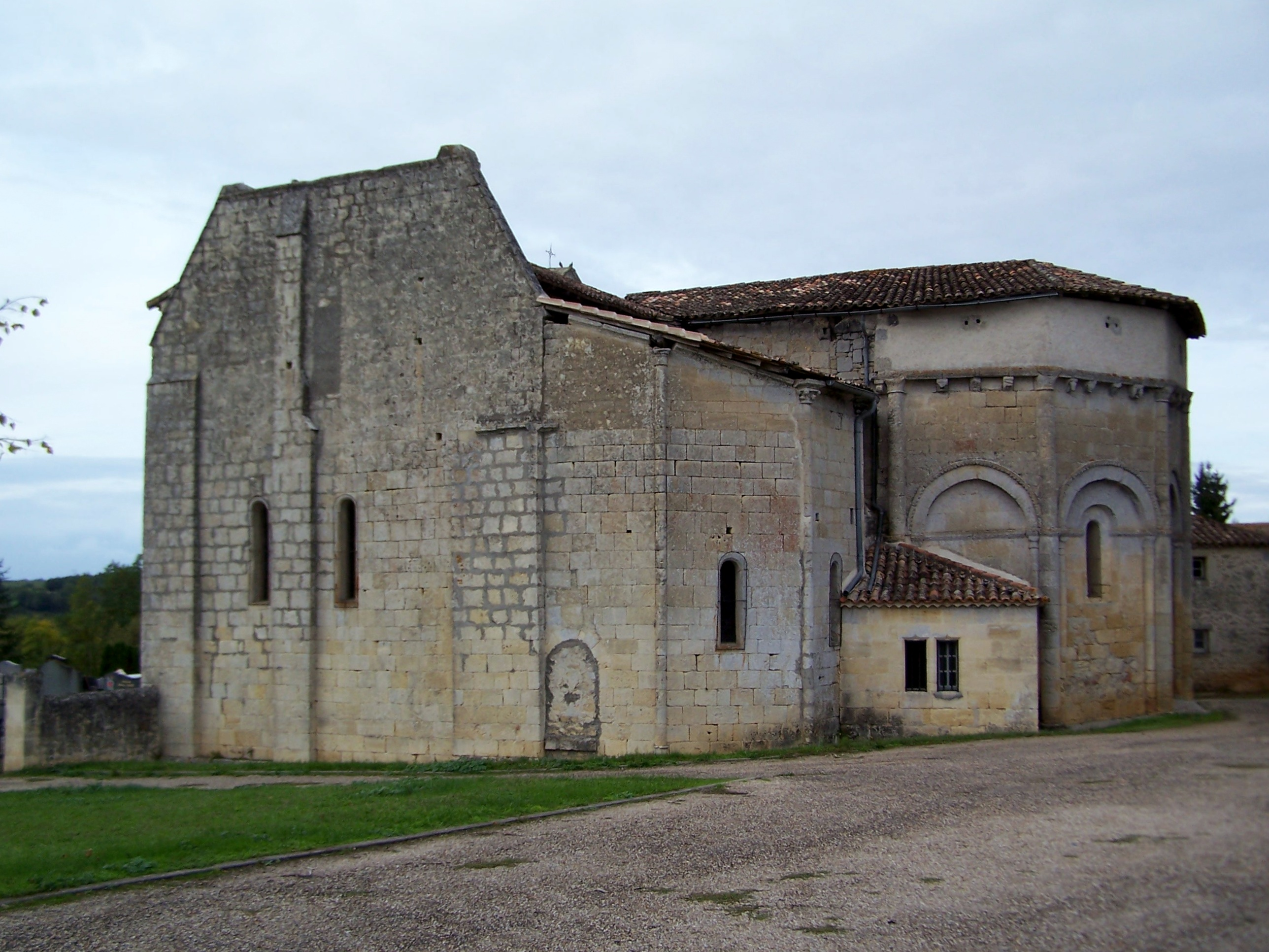 Saint-Eutropius church of Bellefond (Gironde, France)